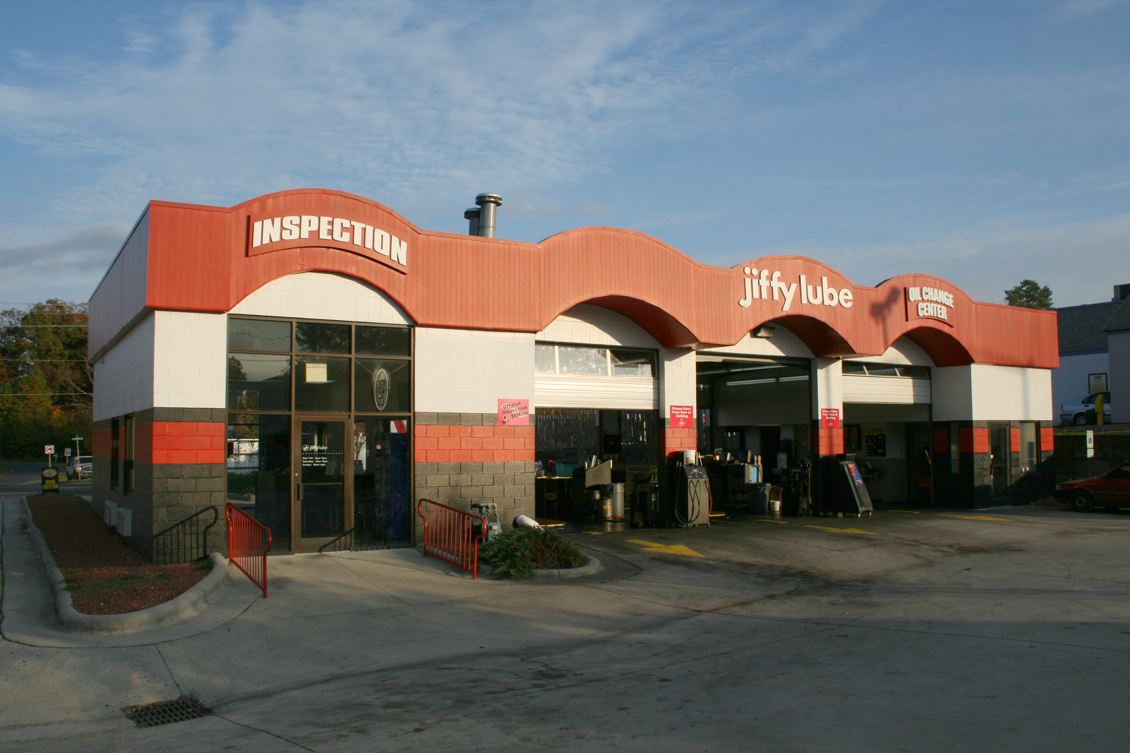 Jiffy Lube at 3915 North Duke Street in Durham, North Carolina.